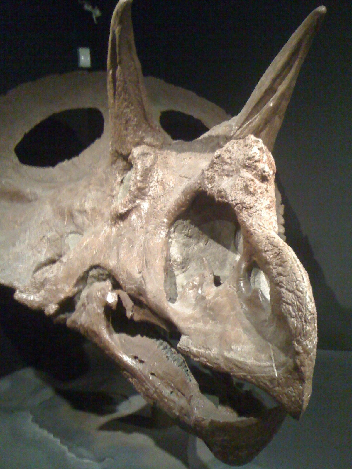 Museum of the Rockies